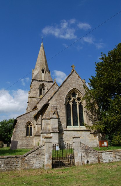 St Peter's parish church, Stainby, Lincolnshire, seen from the east